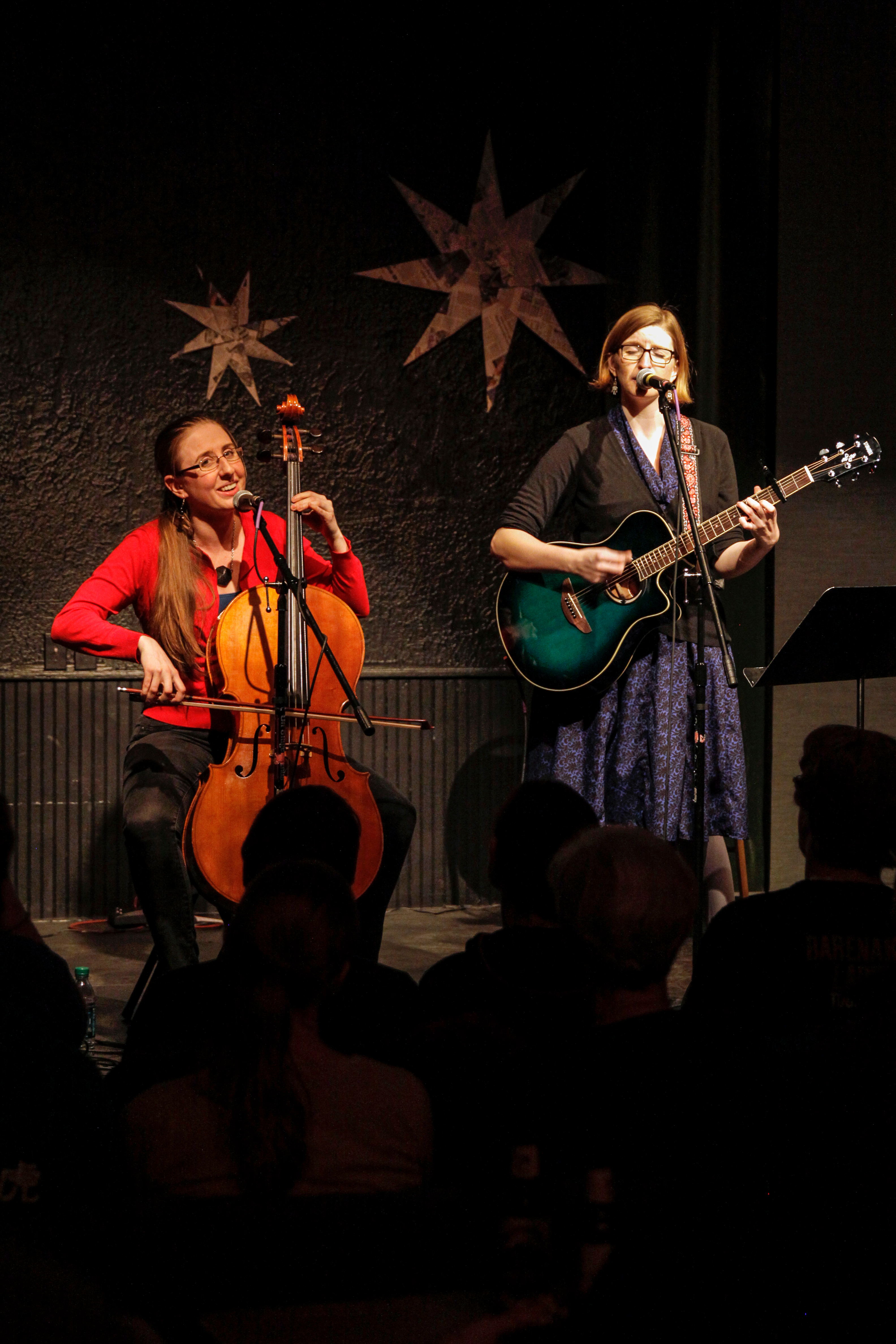 Photos by Britta Marie Photography, of January 2014 NerdNightOut featuring Barbara Holm, The Doubleclicks and Molly Lewis NerdNightOut January 2014 featuring Barbara Holm, The Doubleclicks and Molly Lewis. Photo by Britta Marie Photography.